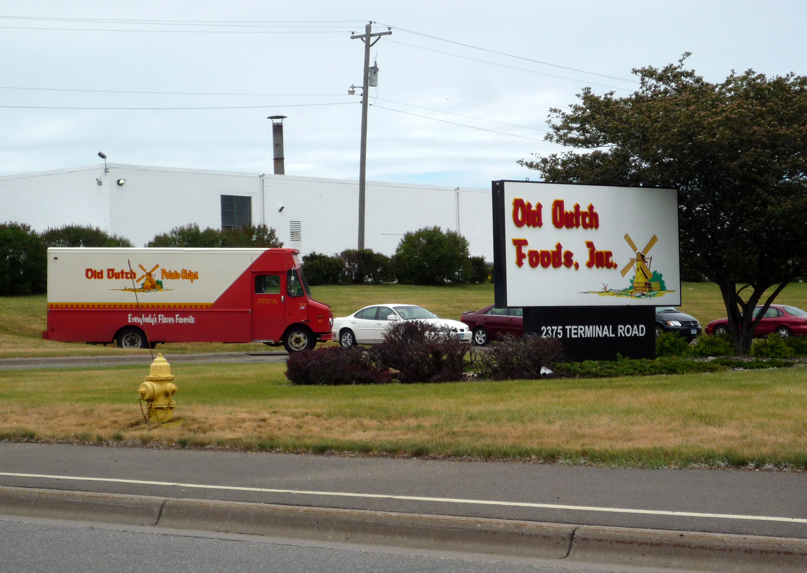 Old Dutch Foods headquarters (including a delivery truck), Roseville, Minnesota, USA.